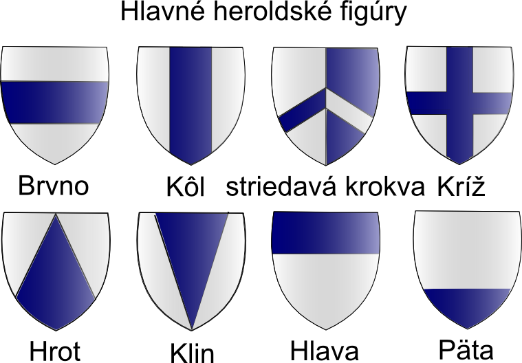 Some of honurable ordinaries used uin heraldry, descripted in slovak.